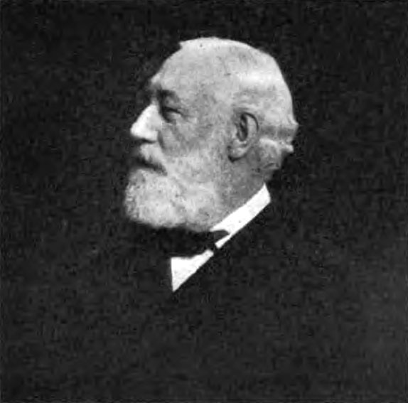 Portrait of U.S. classical scholar William Watson Goodwin.